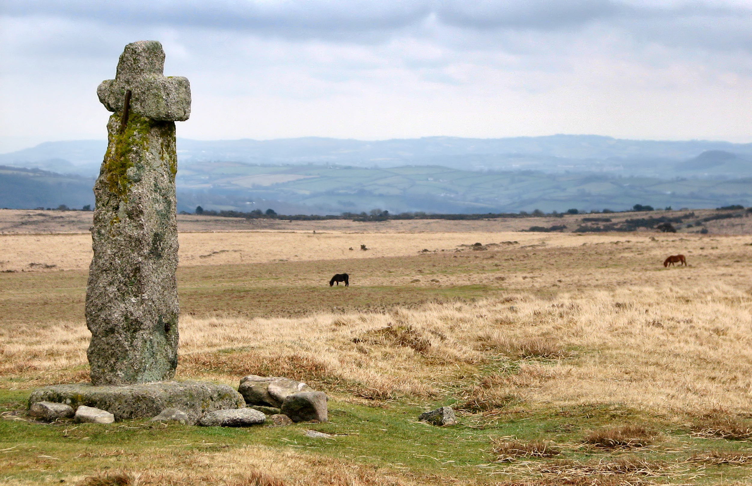 Horn's Cross on Dartmoor, Devon, England